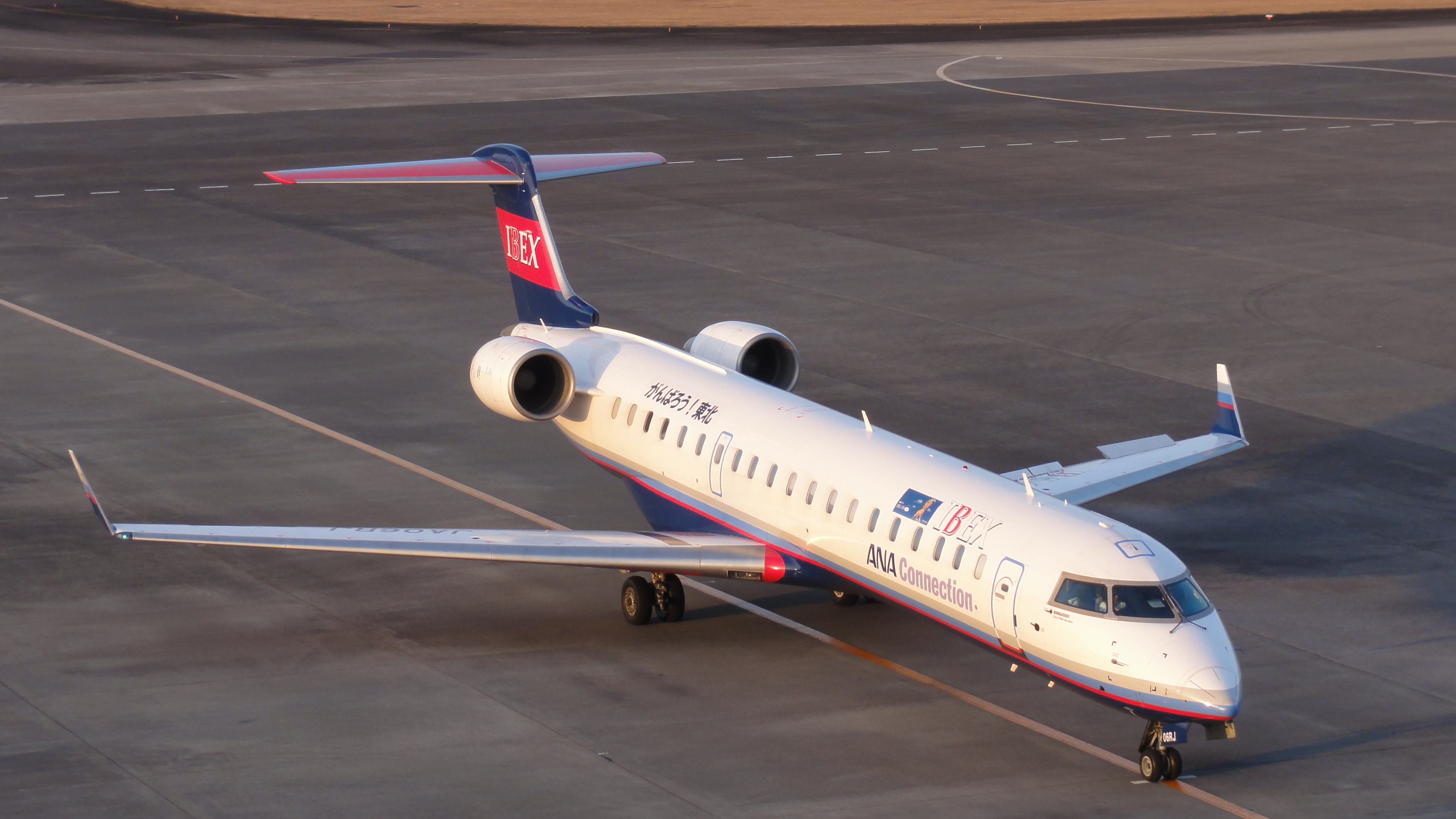 IBEX AirlinesCRJ-700NG(JA06RJ) at Miyazaki Airport, Japan